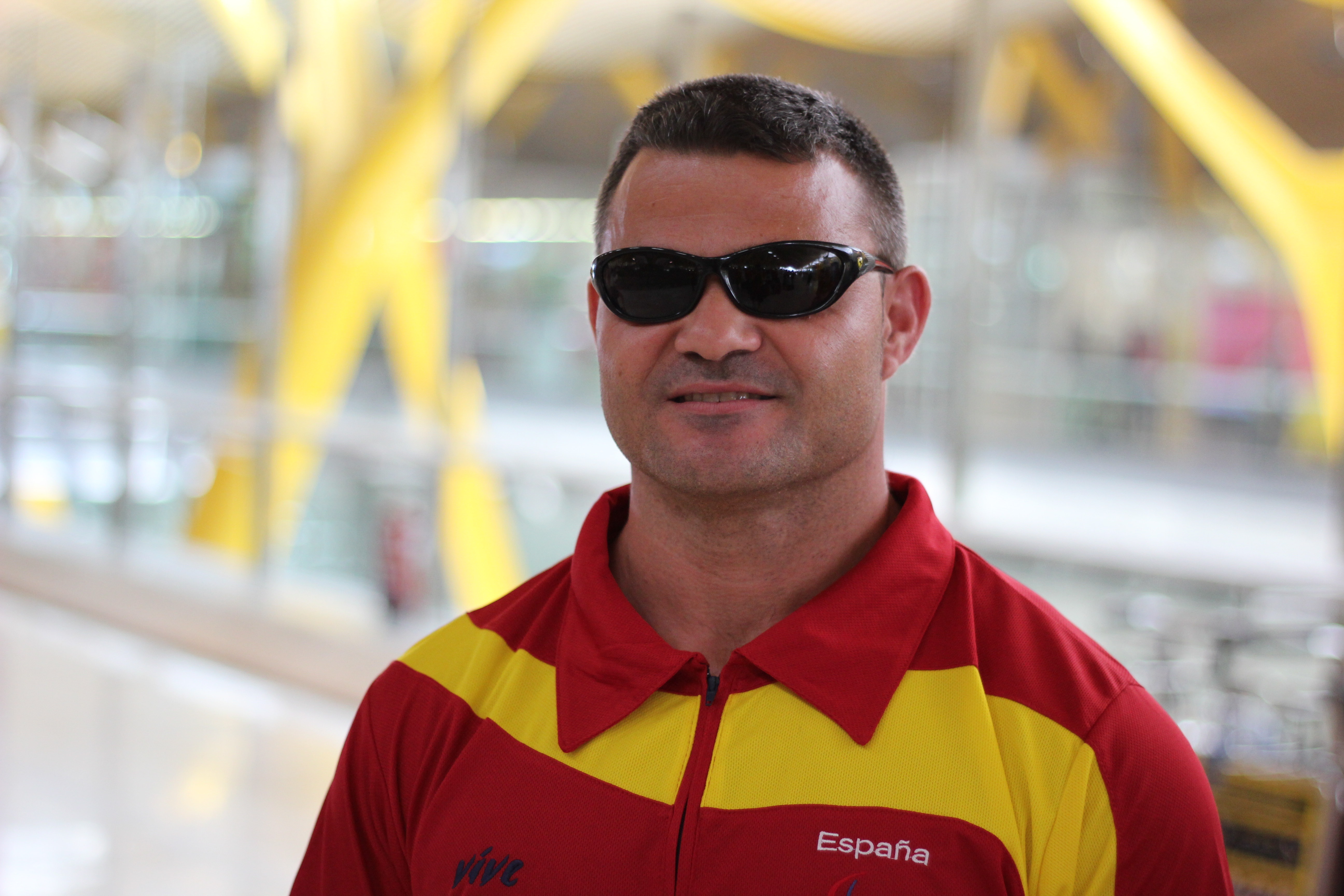 Spanish track and field athlete picture taken at the airport before departure from Madrid to compete at the 2013 IPC Athletics World Championships in Lyon France.